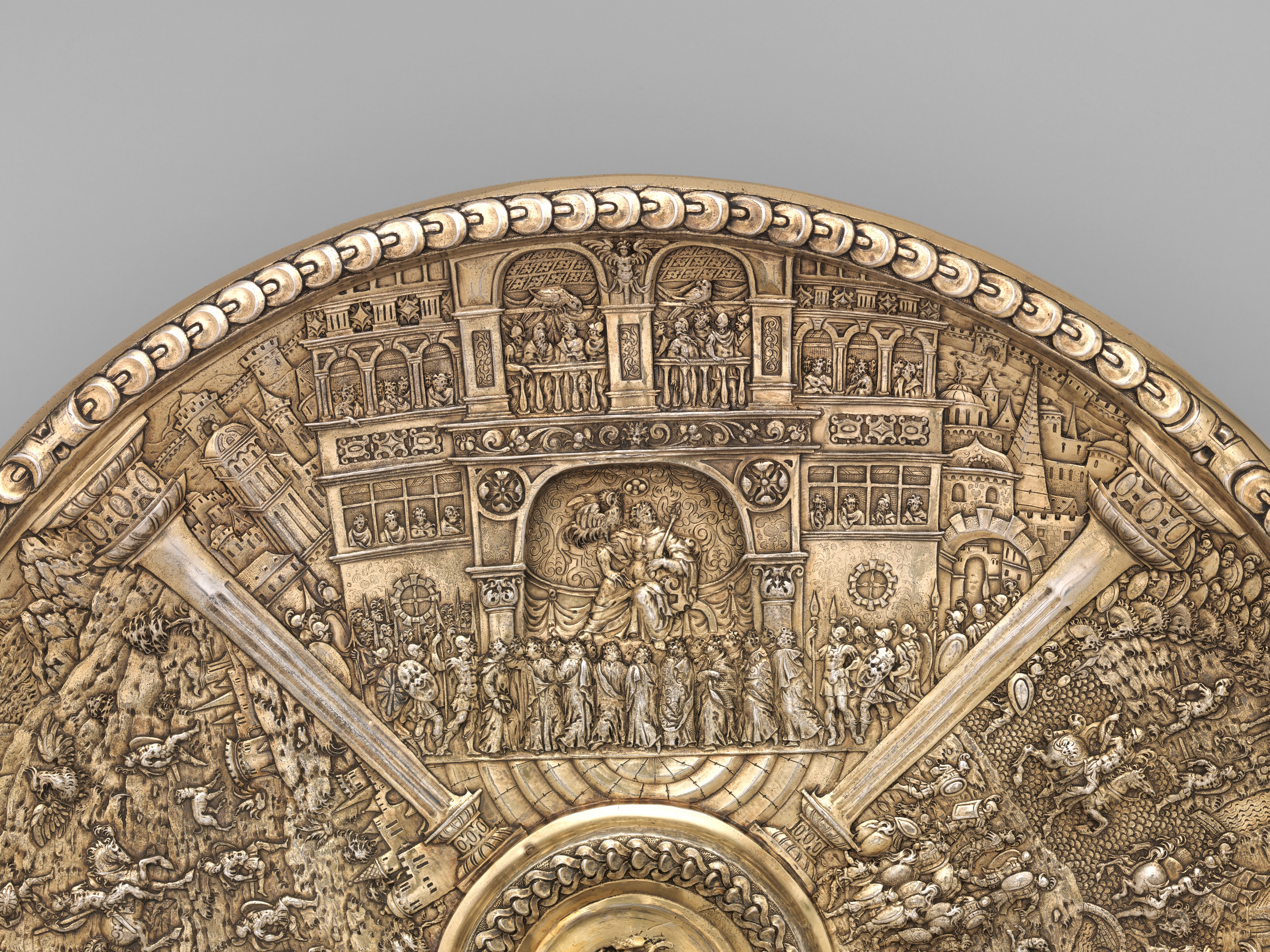 Netherlandish?; ; Metalwork-Silver In Combination